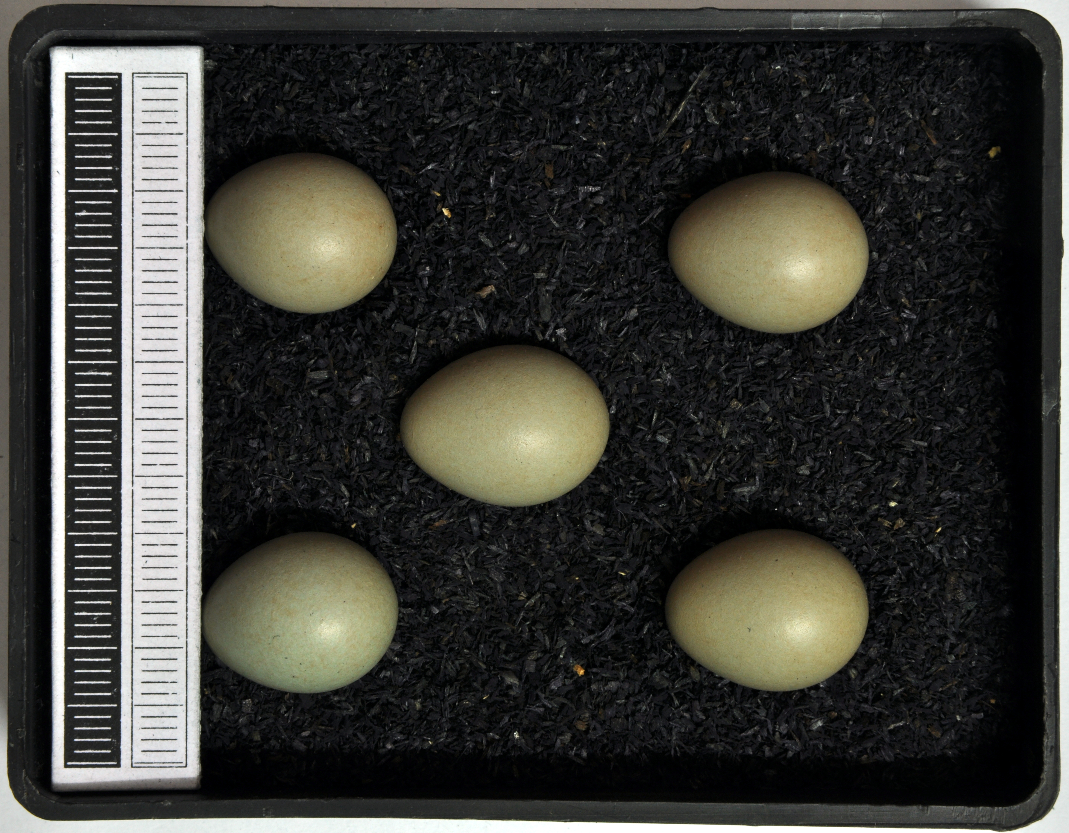 Bluethroat Luscinia svecica svecica, egg, Coll. Museum Wiesbaden, Origin: Jämtlands Län, Sweden, 11.06.1975, leg. W. Abelmann